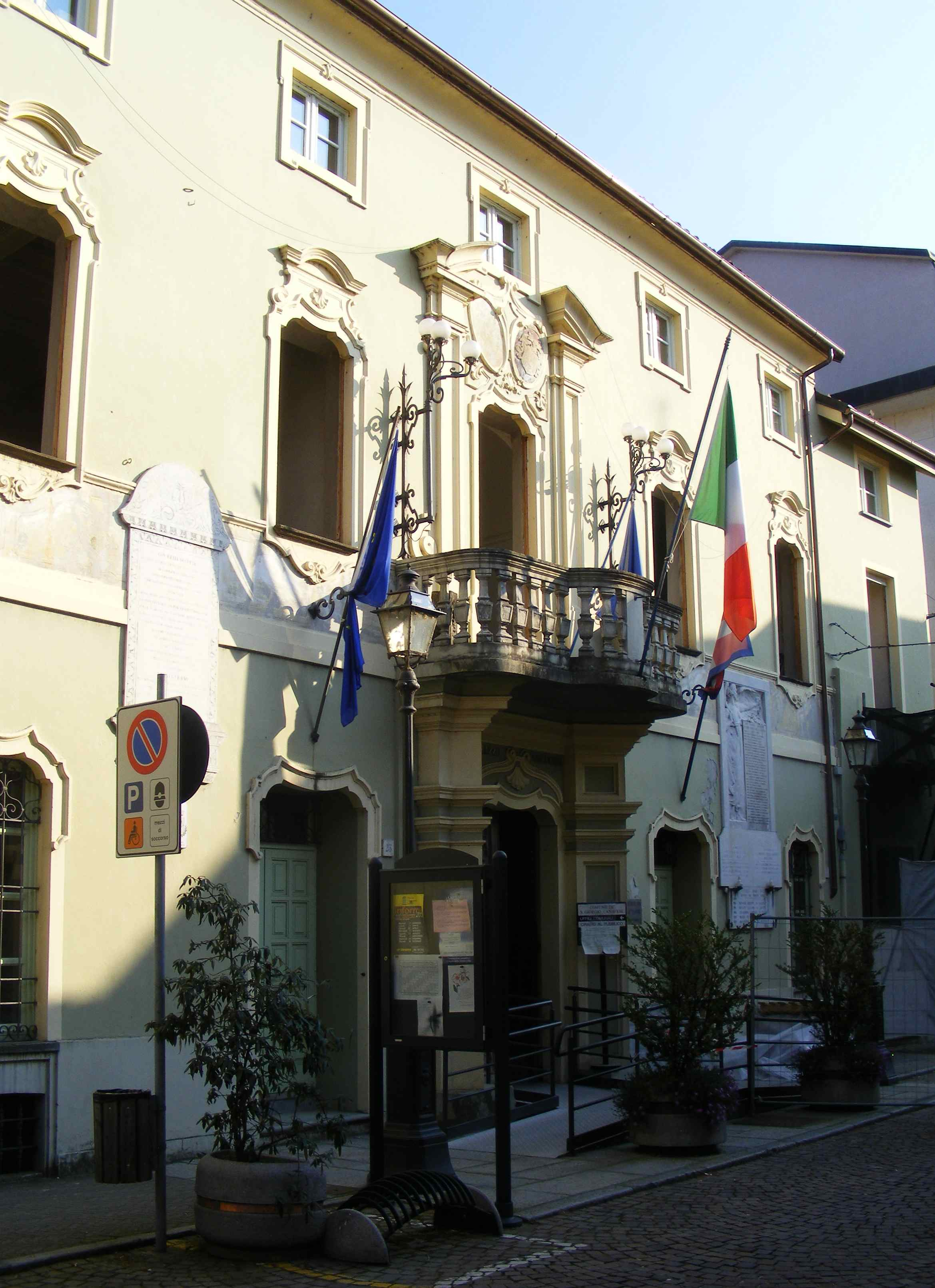 San Giorgio Canavese (TO, Italy): town hall